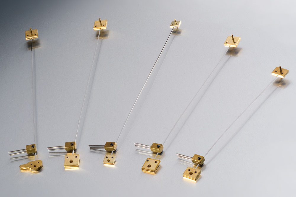 Torsion springs used in torsion pendulum clocks